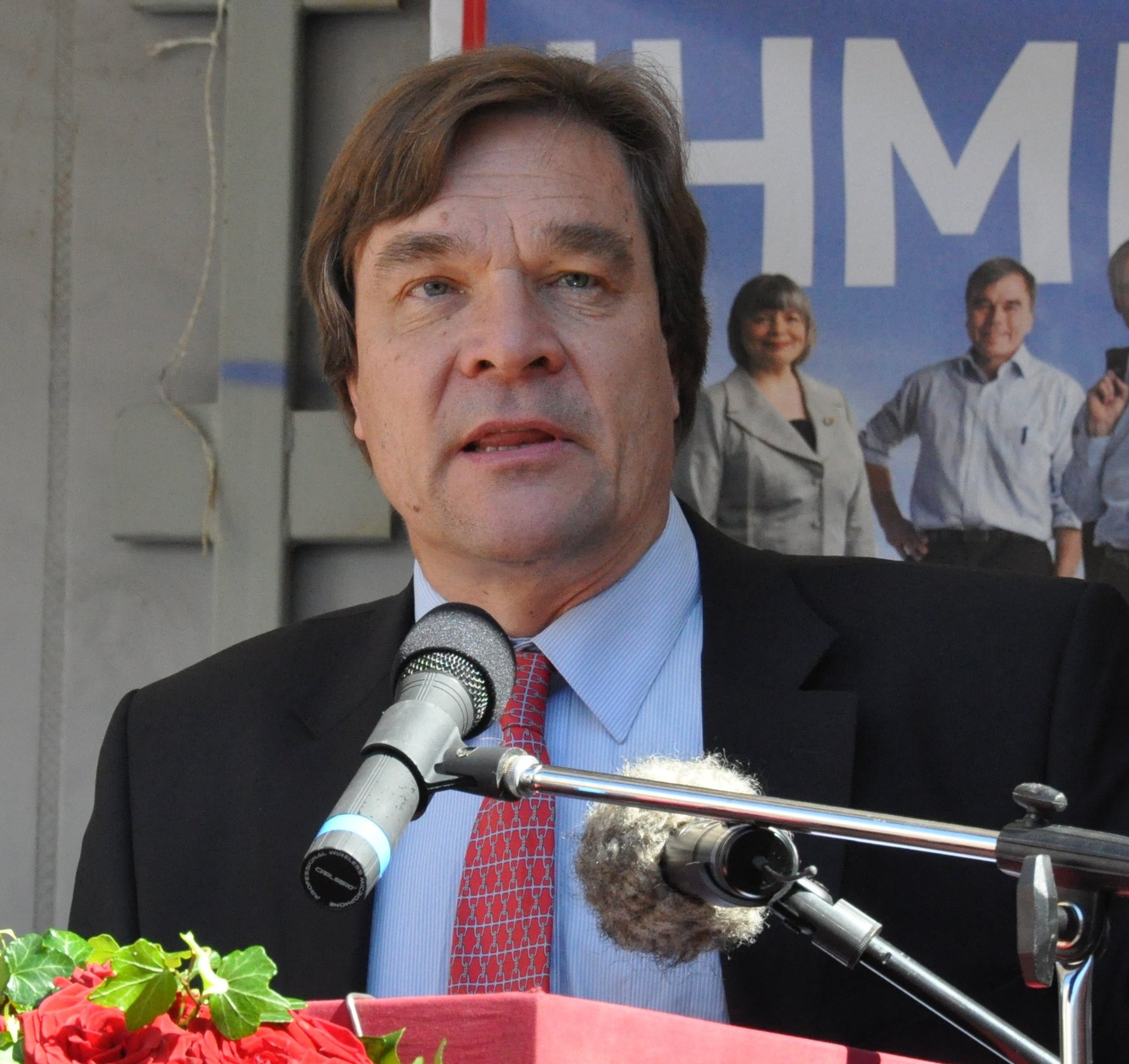 Member of Finnish Parliament Kimmo Kiljunen on May Day 2009 in Turku, Finland.